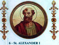 Portrait of Pope Alexander I in the Basilica of Saint Paul Outside the Walls, Rome